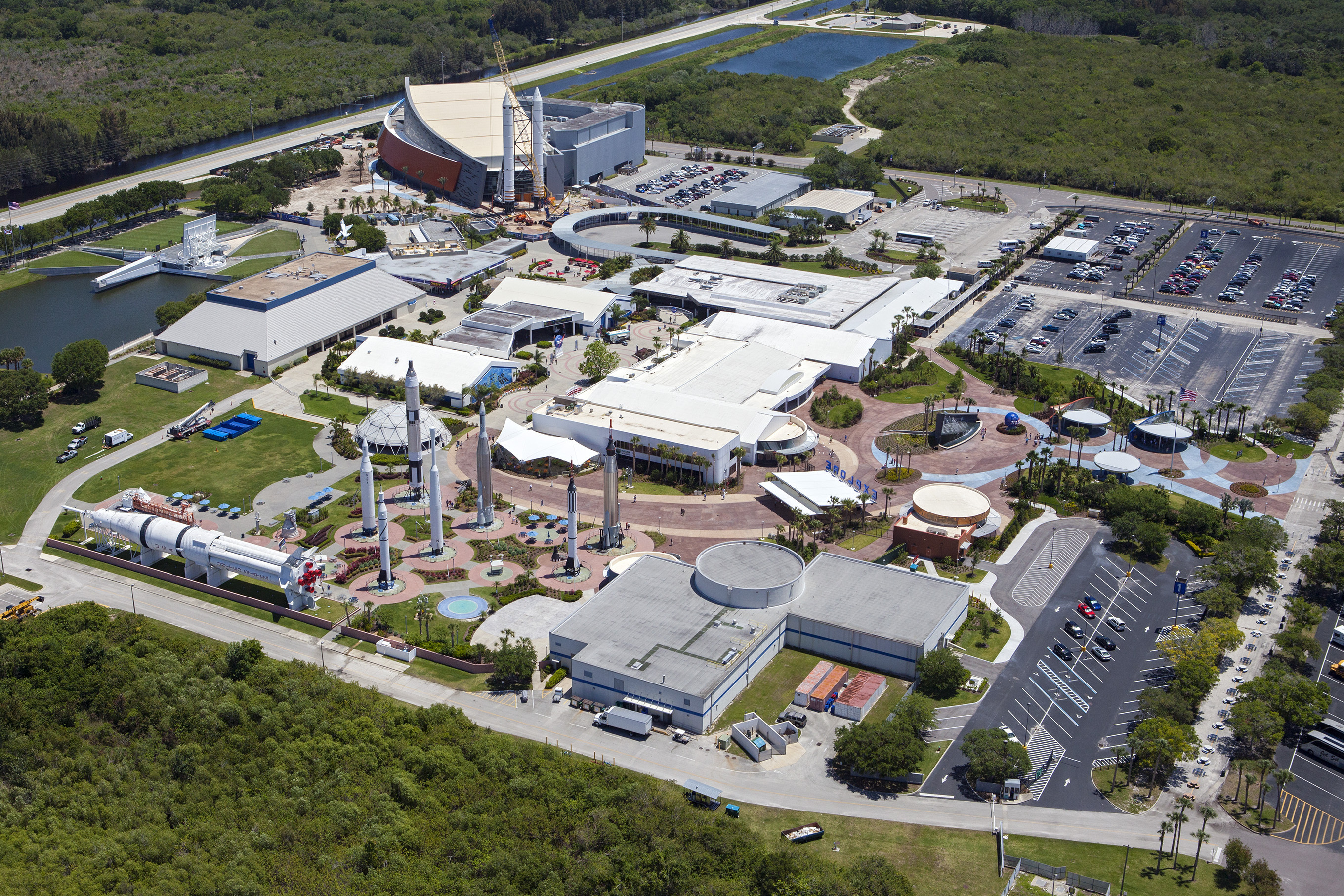 CAPE CANAVERAL, Fla. – An aerial view of the solid rocket booster replicas at the Kennedy Space Center Visitor Complex where the Space Shuttle Atlantis exhibit and attraction is under construction. Image does not show Apollo/Saturn V Center and a few other miscelnous exhibits.